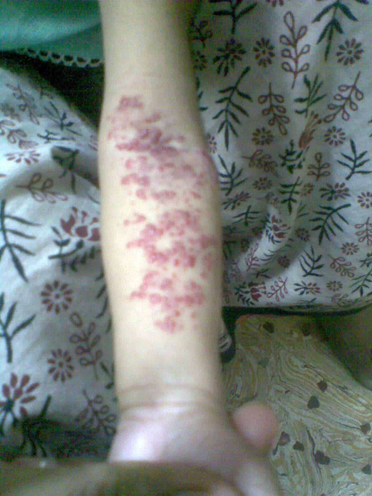 Hemangioma on the forearm.